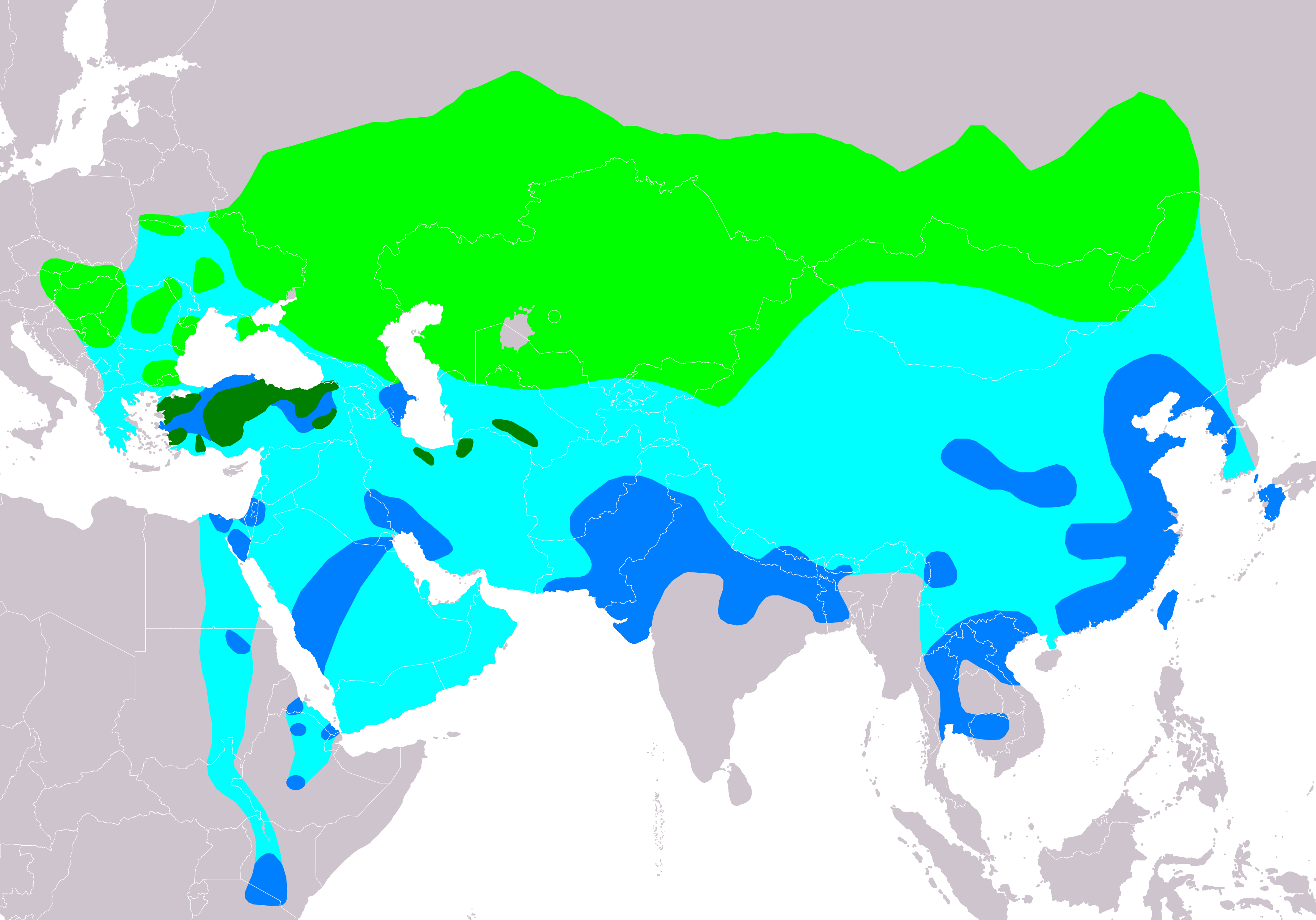 The distribution map of easter imperial eagle (Aquila heliaca) according to IUCN version 2019.1; key: Legend: Extant, breeding (#00FF00), Extant, resident (#008000), Extant, passage (#00FFFF), Extant, non-breeding (#007FFF)